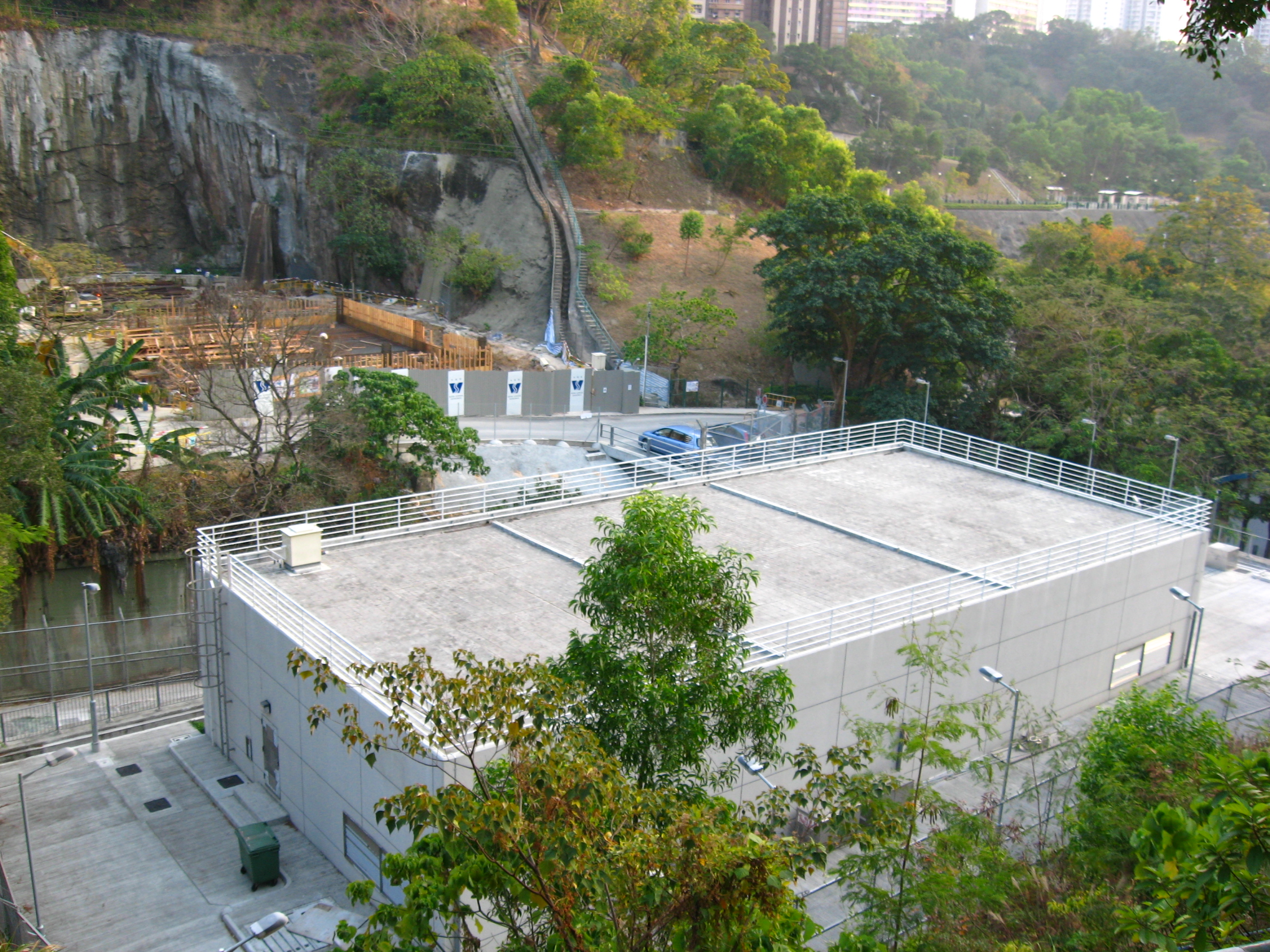 Jordan Valley, Hong Kong